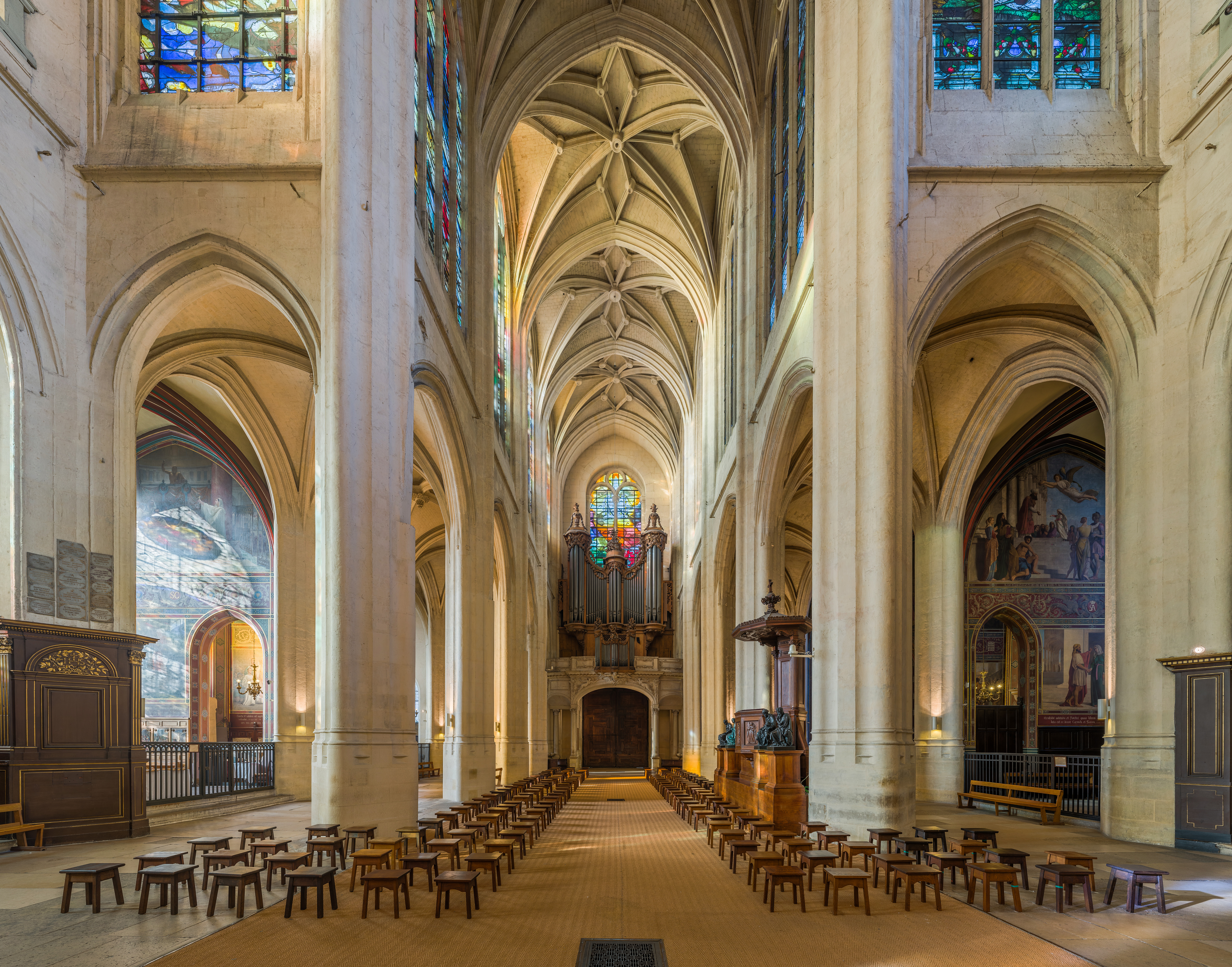 The interior of the Church of St-Gervais-et-St-Protais looking west toward the organ and entrance in Paris, France.